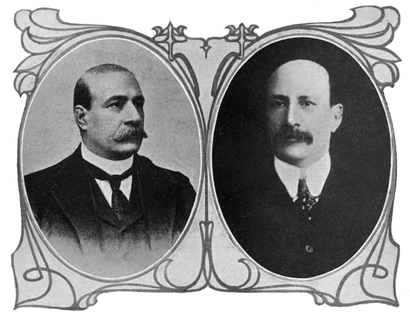 Sir Jacob Hai David Sassoon, 1st Baronet KCSI (1849–1926), Chairman of the Bank of India, founder of the company "Sassoon J. David & Co., Ltd." and his brother Abraham Aubrey J David (1854–?)